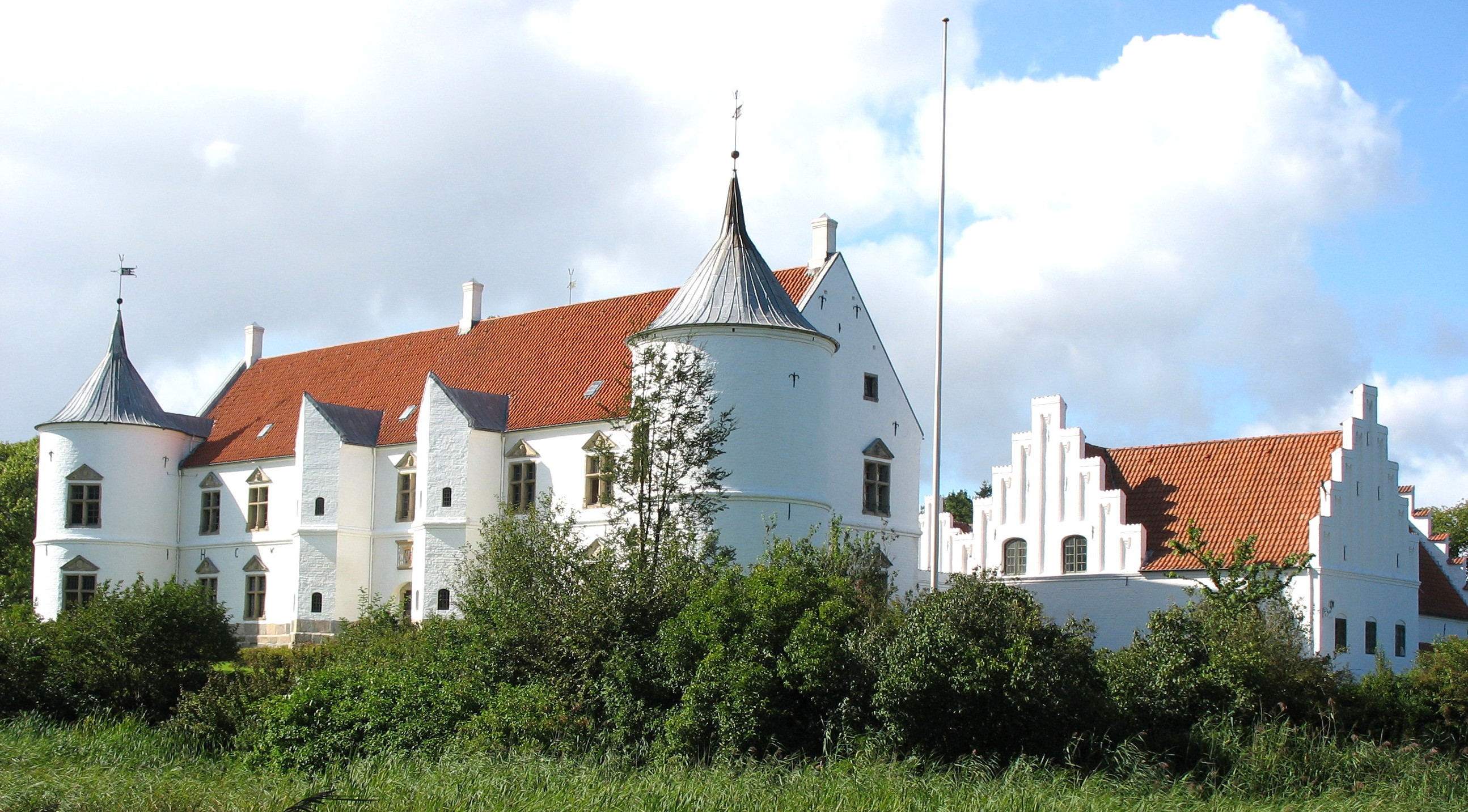 Lindenborg Gods seen from south-east.